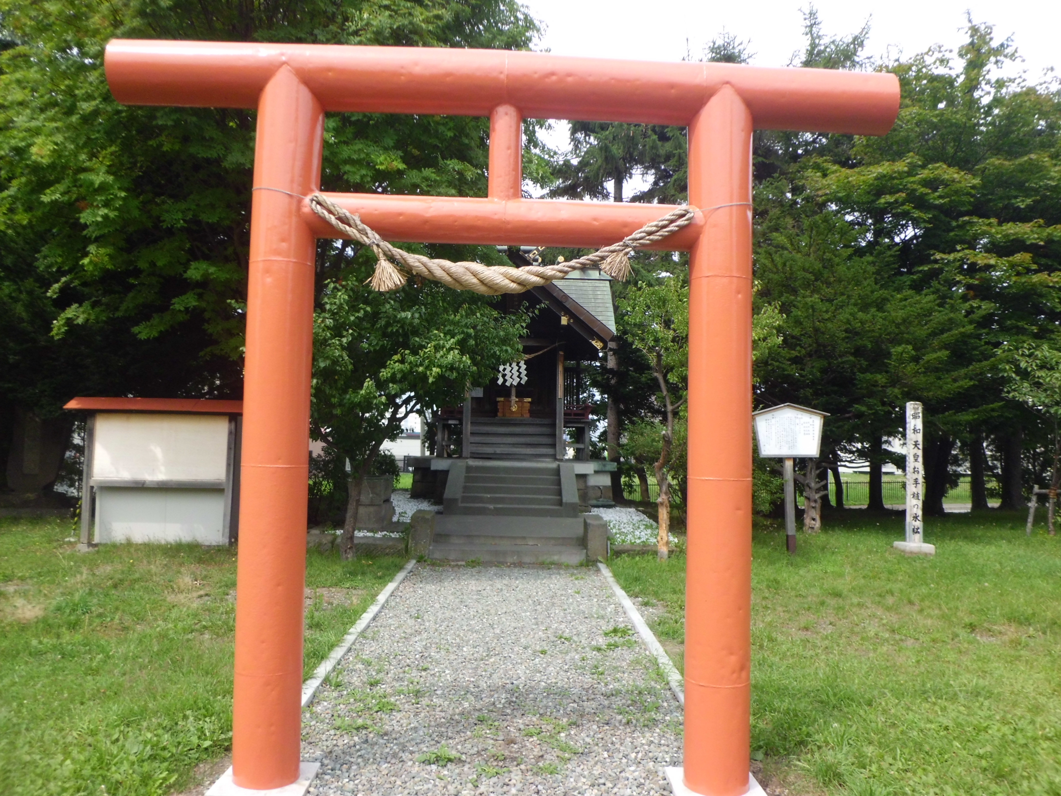 Makomanai Shrine